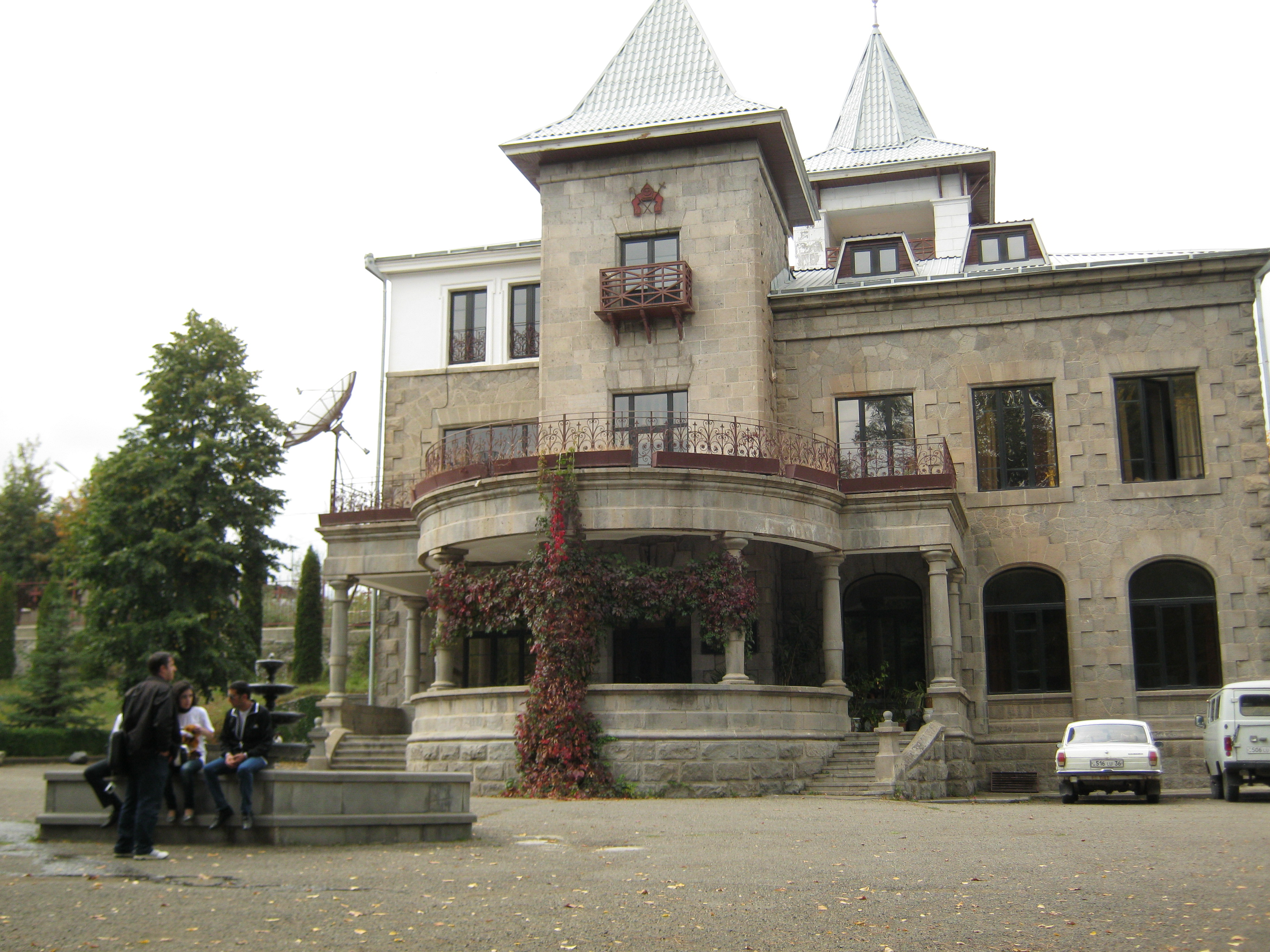 Tairov Chateau in Vanadzor, currently serves as seat of Gugark diocese of Armenian Apostolic Church